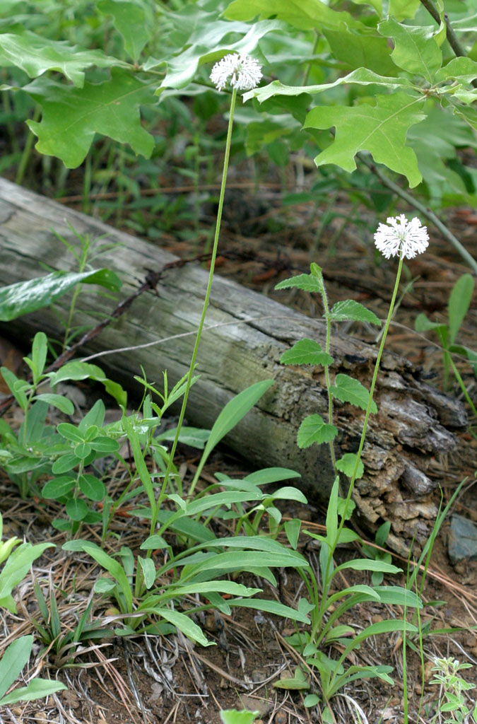 Spoonshape Barbara's buttons, Marshallia obovata, habitus. Location: Durham County, North Carolina, United States. Identification reference: Albert Radford, H.E. Ahles, and C. R. Bell (1968). Manual of the Vascular Flora of the Carolinas. Chapel Hill, North Carolina: University of North Carolina Press. ISBN 0807810878.